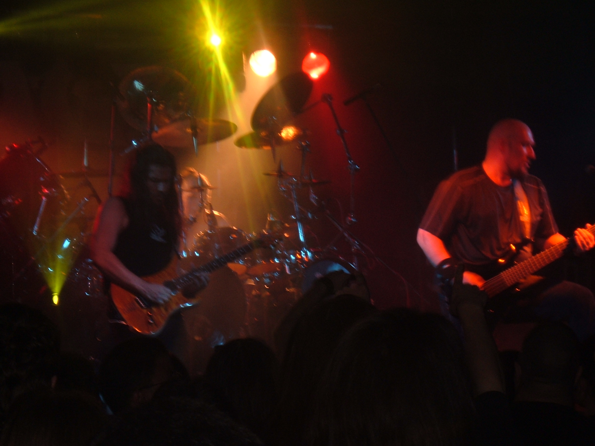 Picture taken by myself with my camera. Live in Milan, Italy (at the Rainbow). 13 April 2006. Members: Peter Wagner - vocals, bass Victor Smolski - guitar, Keyboard Mike Terrana - drums